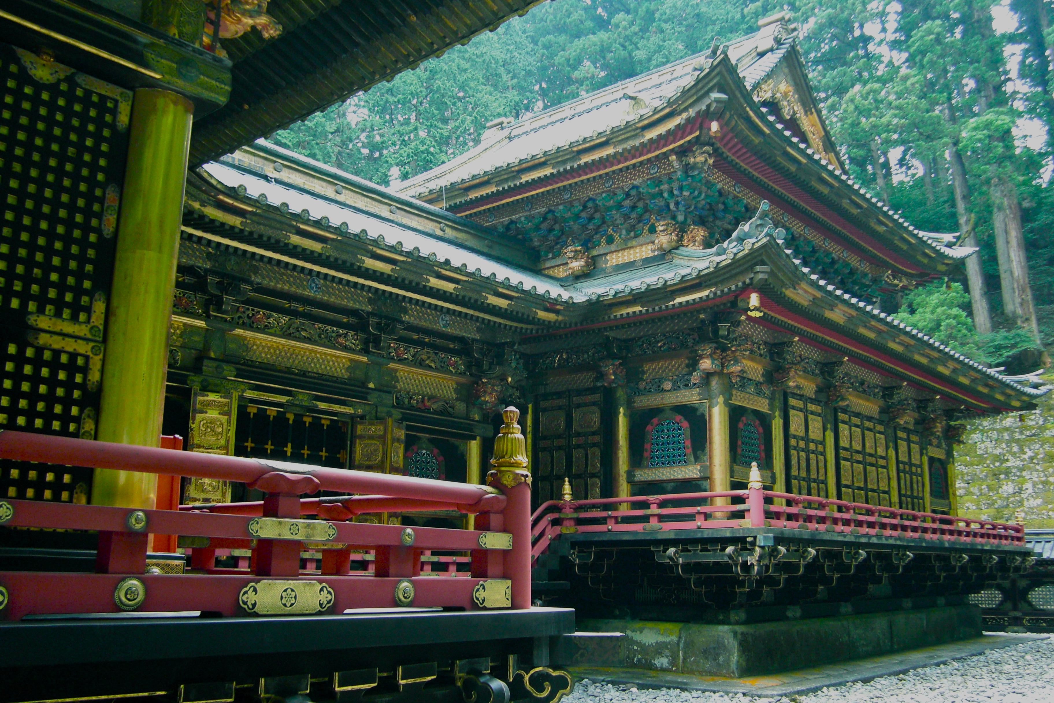 Honden (the main hall) of Taiyuin mausoleum